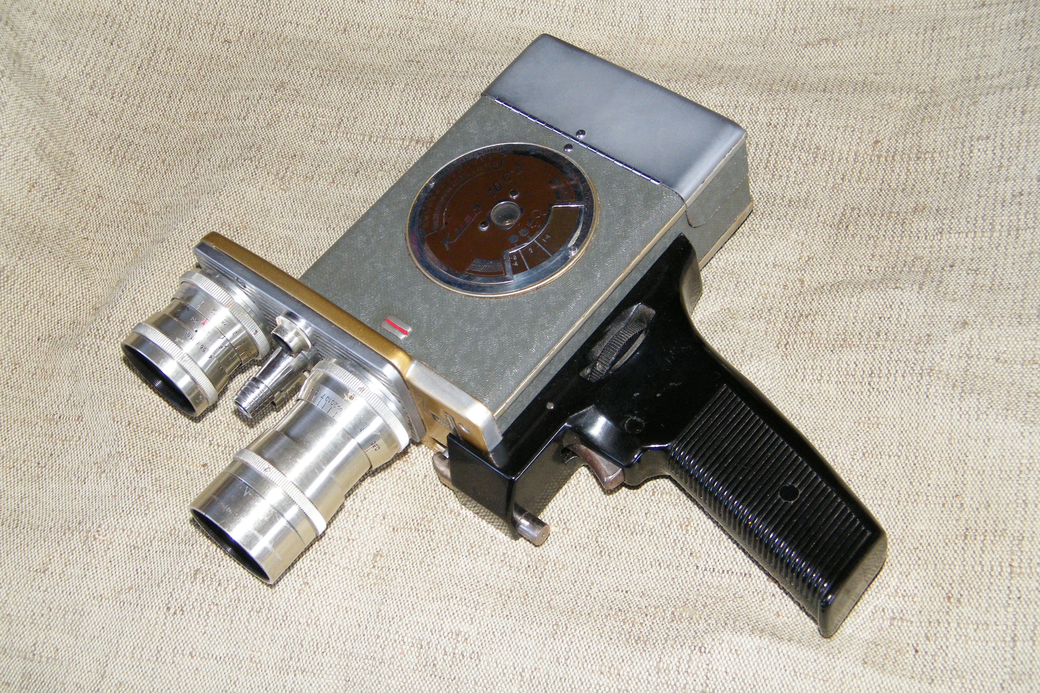 Киев-16С-3 фото1